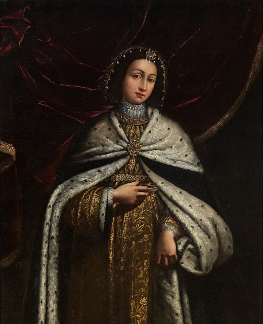 Agnès de Faucigny, portrait